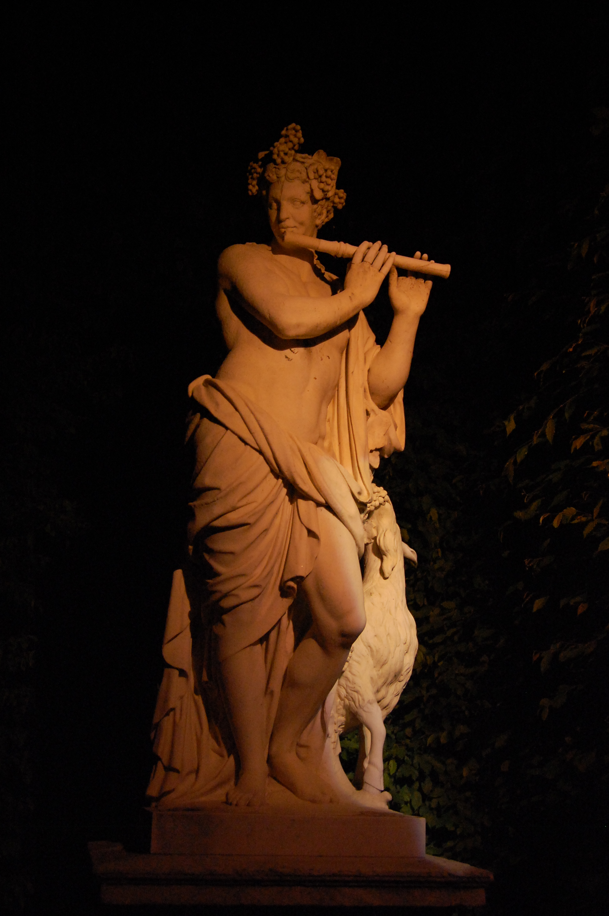 Le Sanguin (The fiery man) by Noël Jouvenet